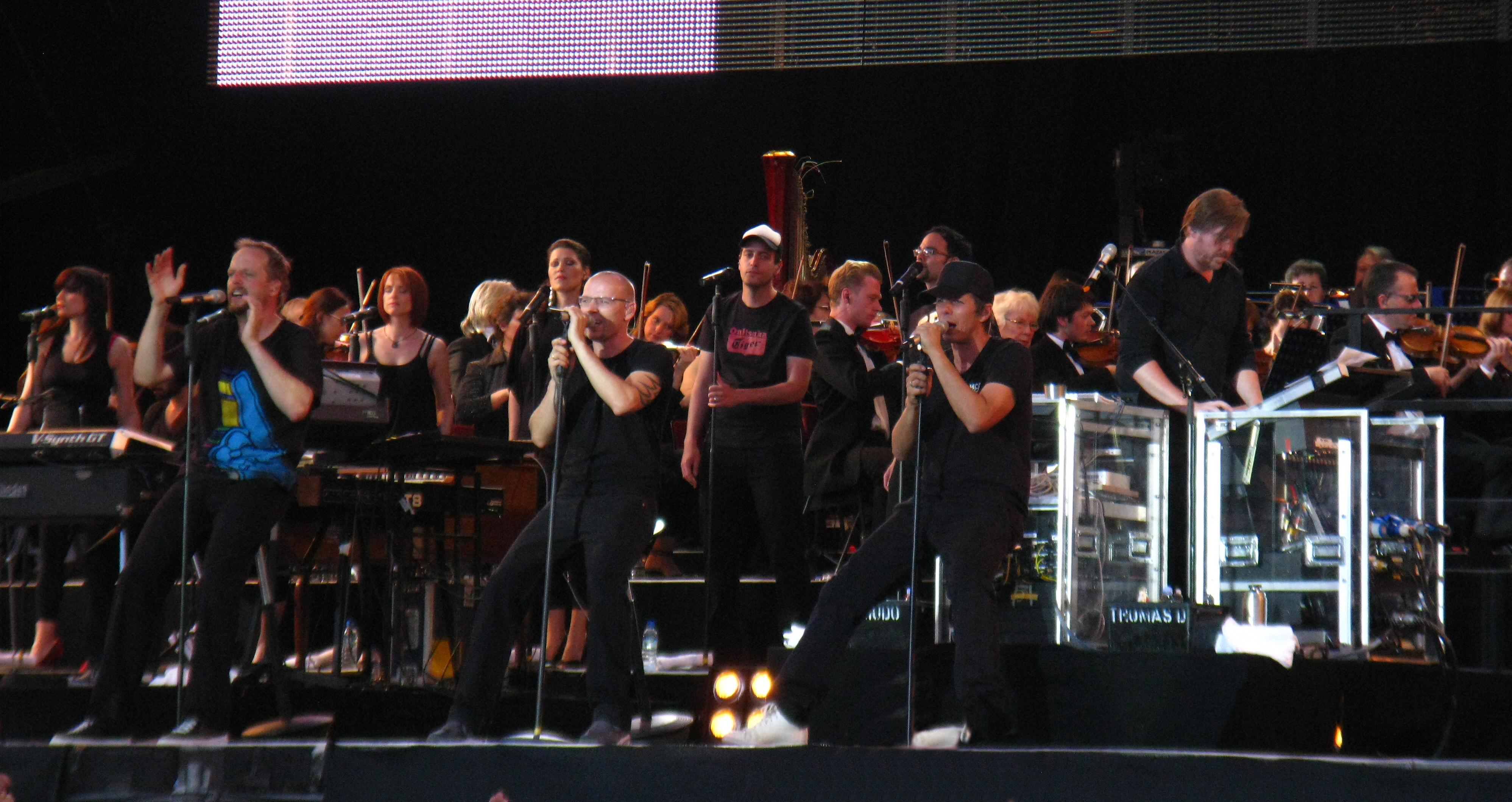 "Heimspiel" - 20 years anniversary gig of Die Fantastischen Vier at Cannstatter Wasen in front of 55.000-60.000 people. From left to right: Smudo, Thomas D, Michi Beck & And. Ypsilon.